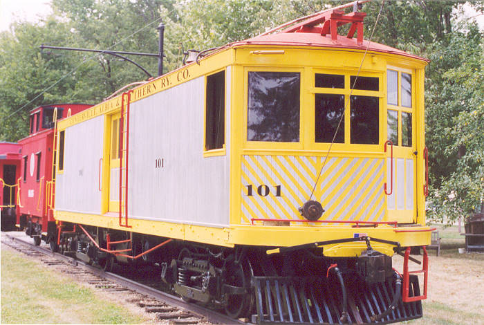 This freight motor originally ran on the Centerville Albia & Southern in Iowa. Photo by Frank Hicks.